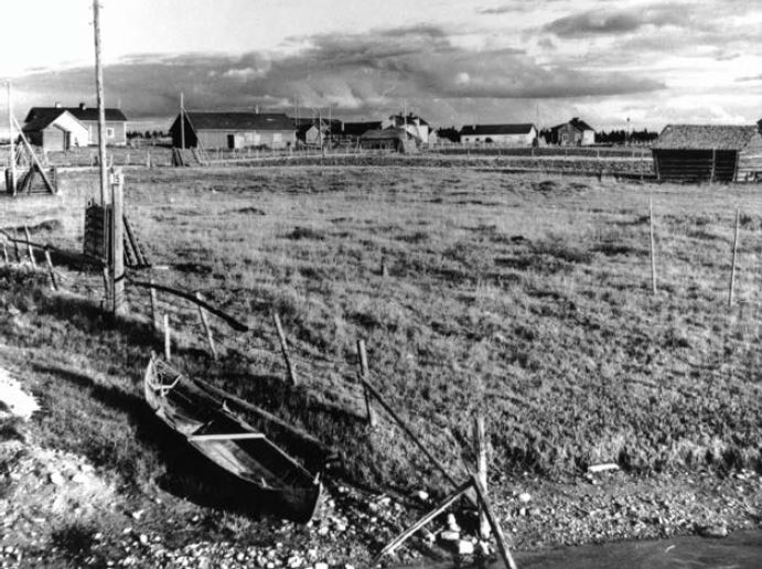 Village of Mutenia in Sodankylä, Lapland, Finland. The village was mostly flooded by the Lokka Reservoir in 1967.